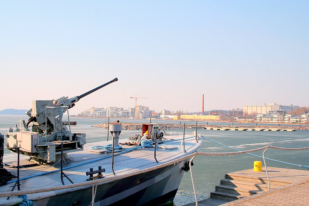 A Koskelo class coast guard ship Koskelo First ship of the coast guard ship Koskelo was build in 1955 on Valmet yards. After Koskelo were built seven others: Kuikka, Kiisla, Kuovi, Kurki, Kaakkuri, Telkkä ja Tavi'. The Finnish coast guard ship Koskelo is in the harbour of Lahti and is used for sailing in Paijanne.